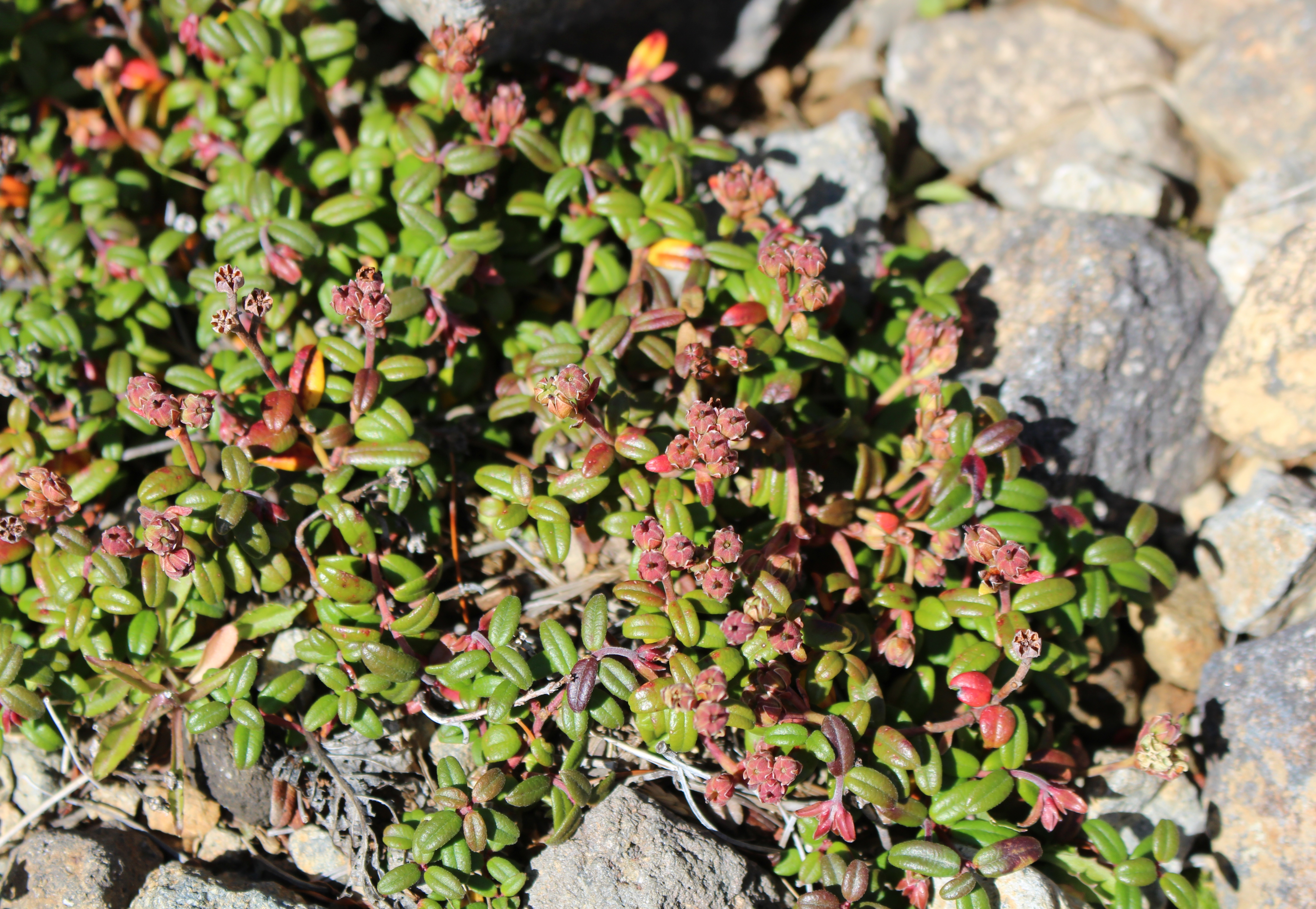 Arcterica nana in Mount Ontake, Japan.